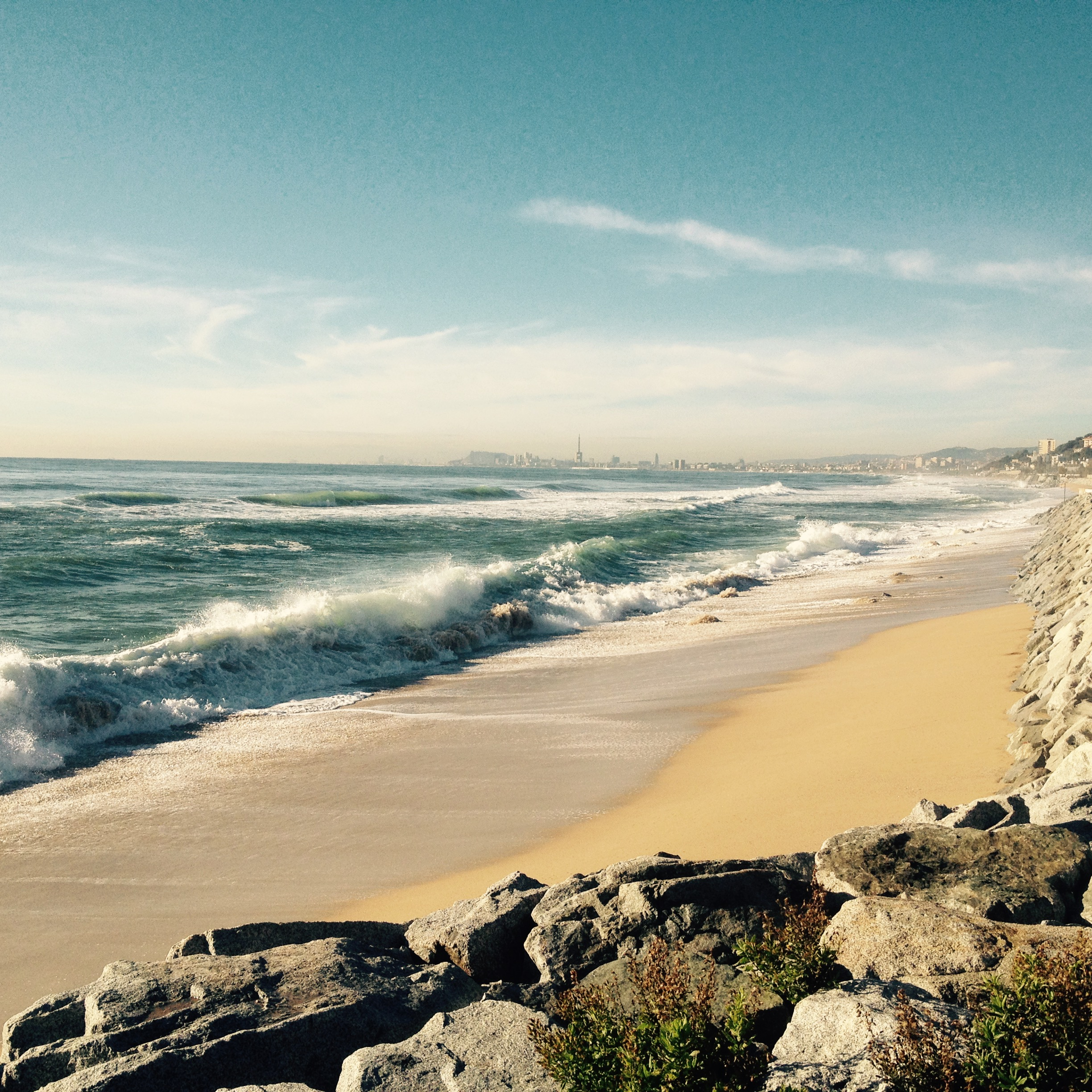 Maresme Waves